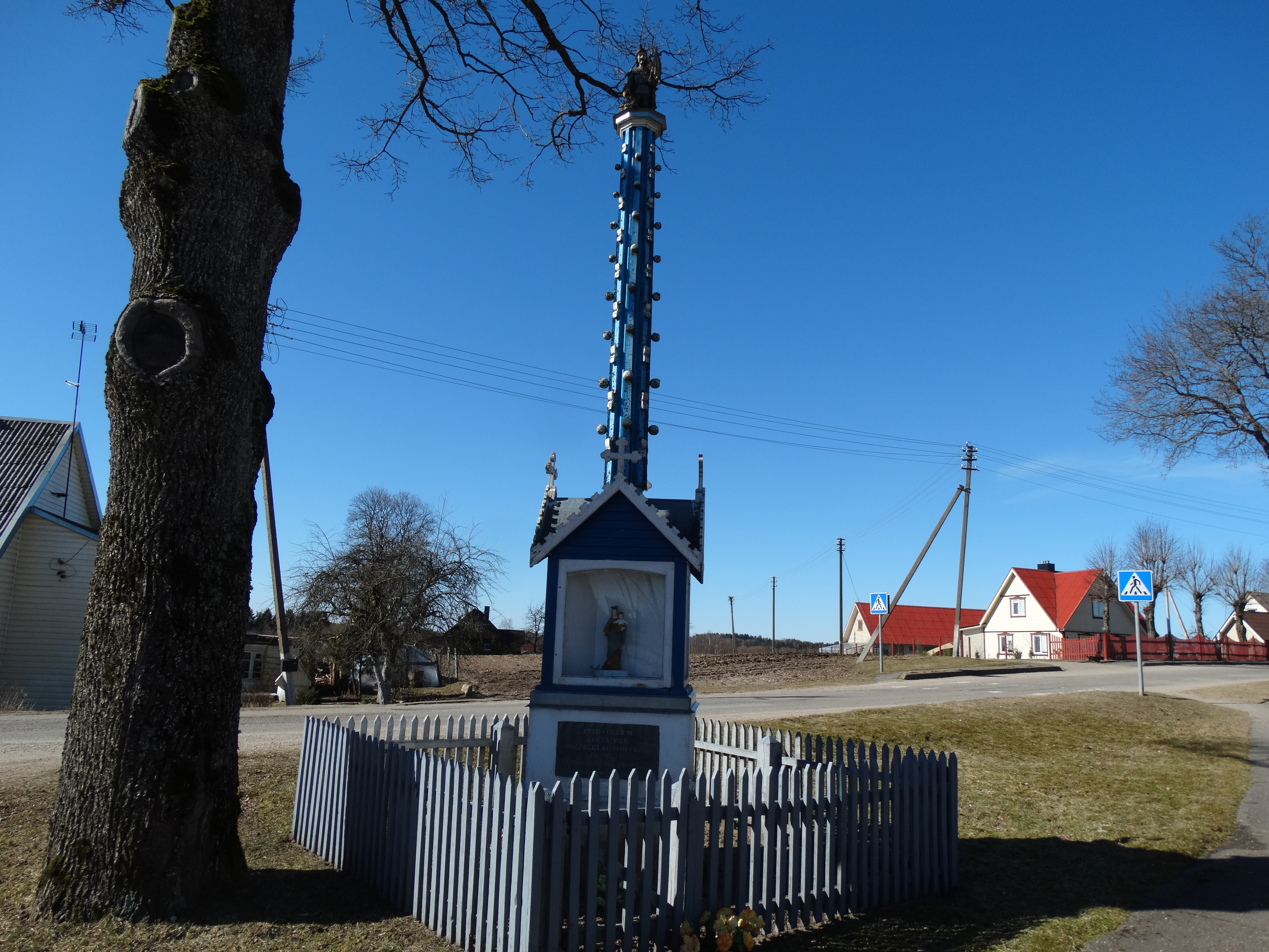 Independence monument in Lieplaukė, Telšiai district, Lithuania